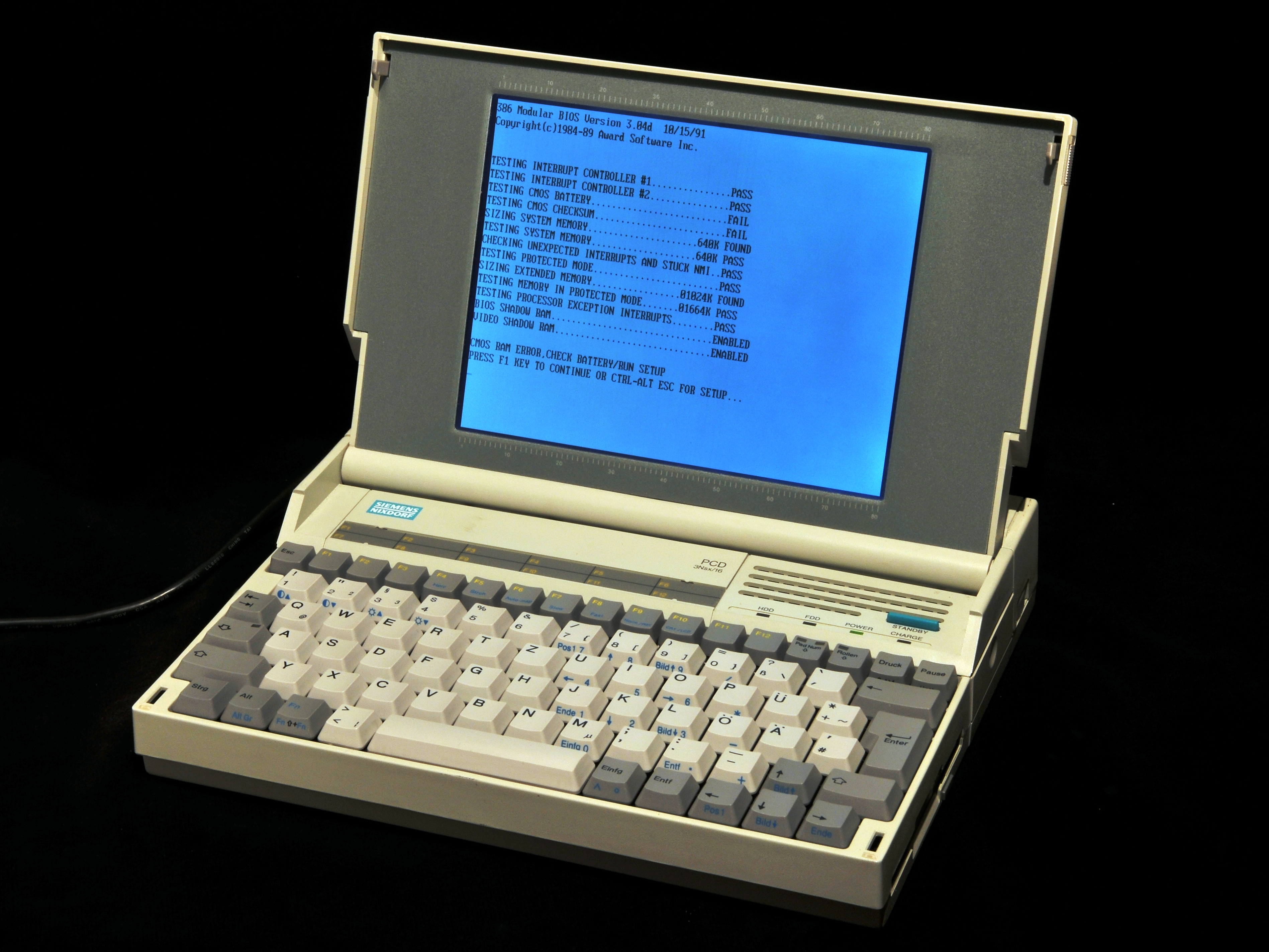 1991 Laptop PCD-3Nsx by Siemens-Sixdorf